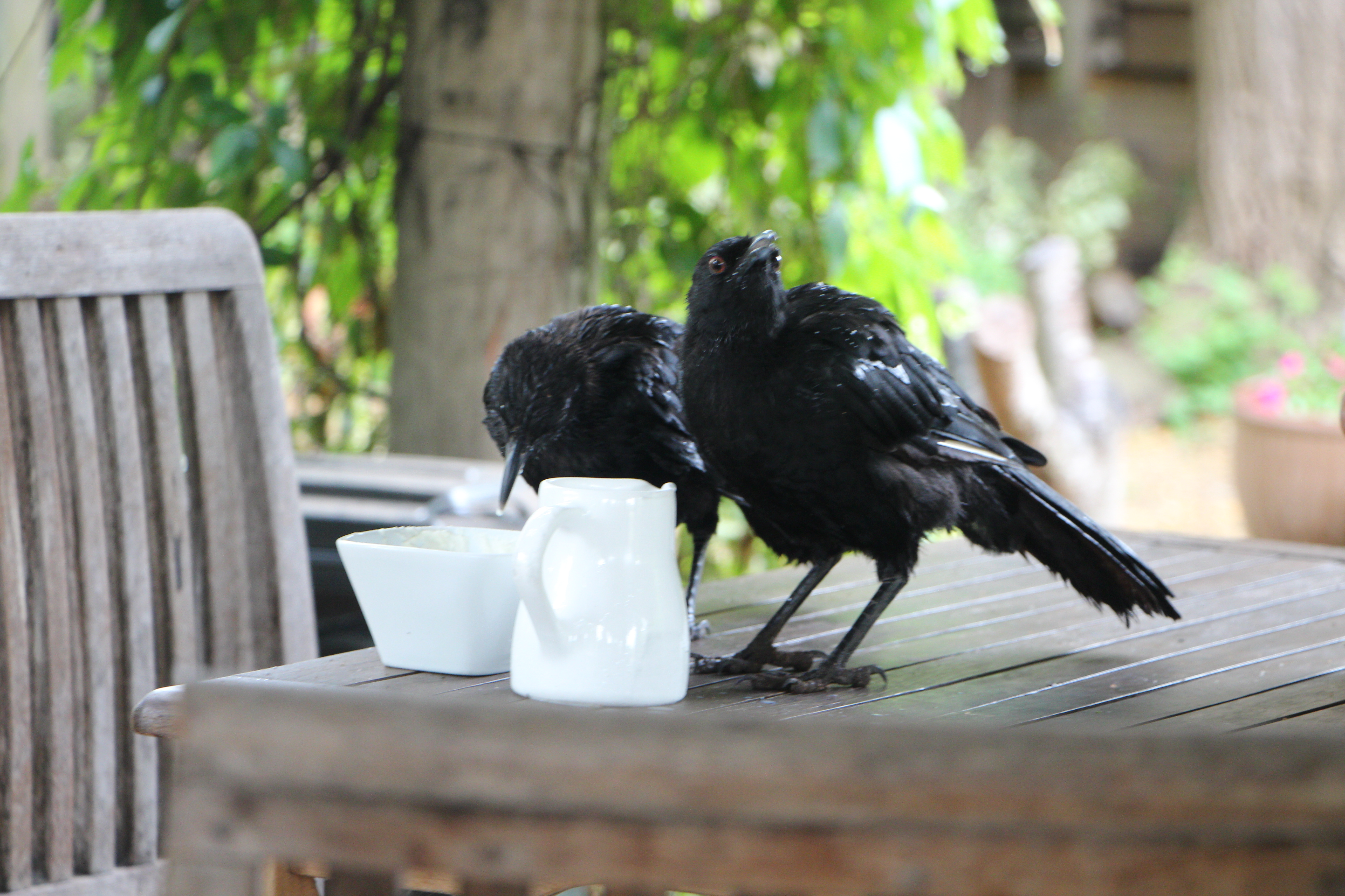 Australian white-winged choughs eating leftover cream and milk at an outdoor teahouse in the Megalong Valley. 21 December 2015.